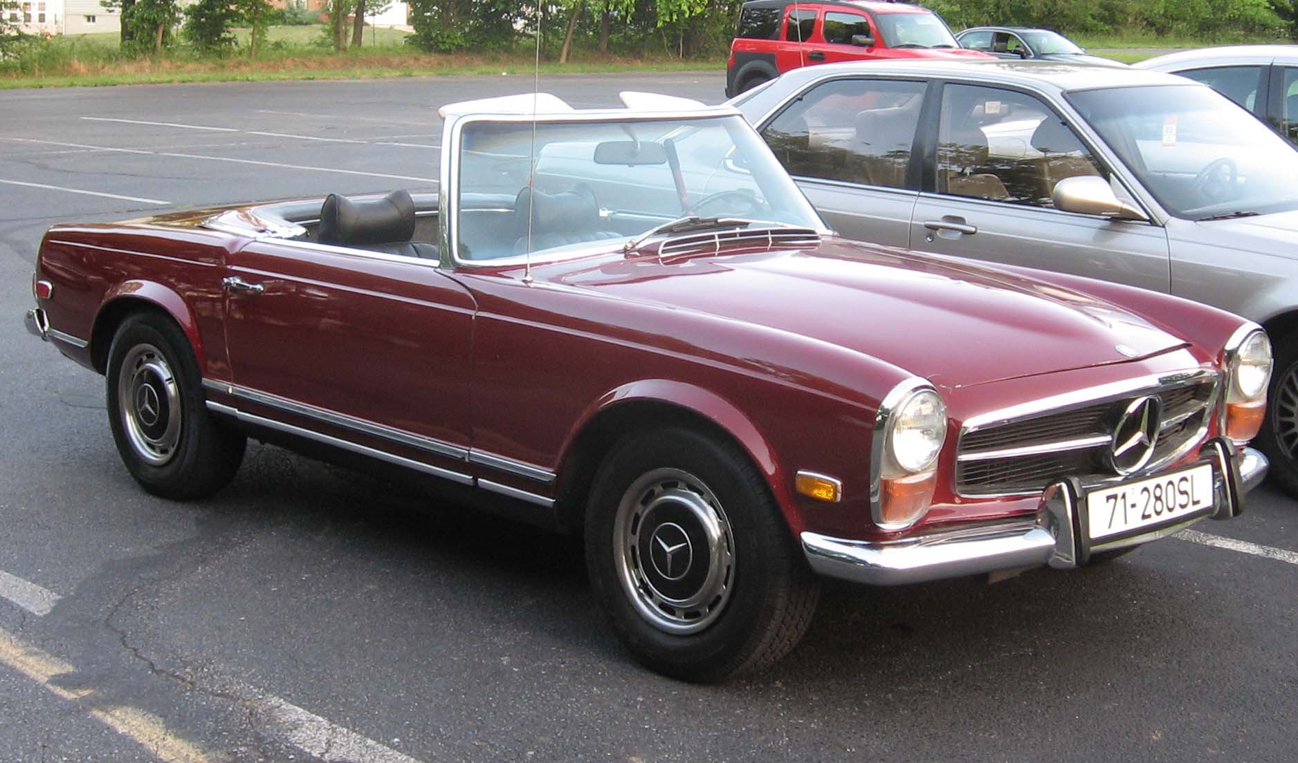 1971 Mercedes-Benz 280SL photographed in USA.